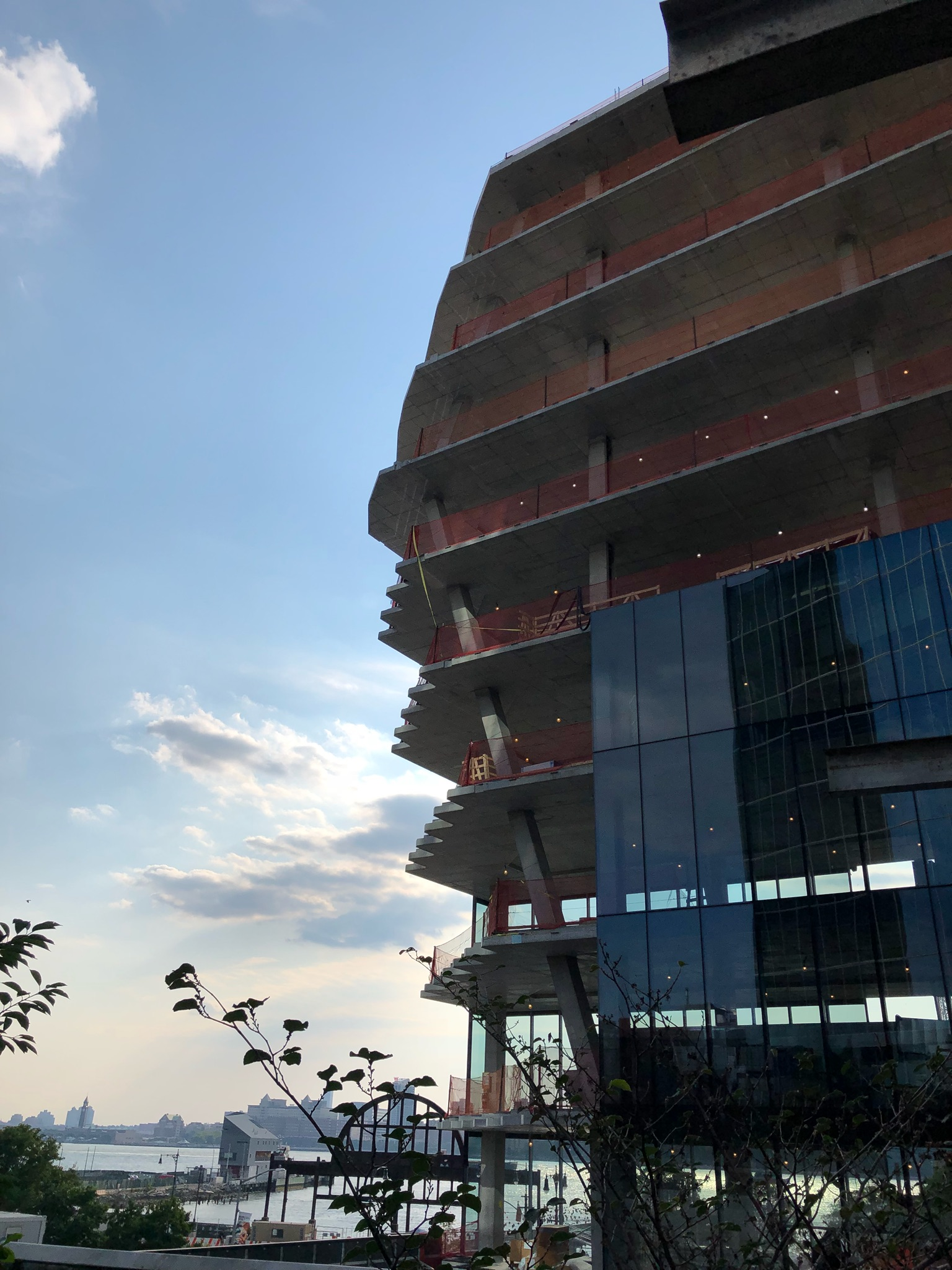 Solar carve